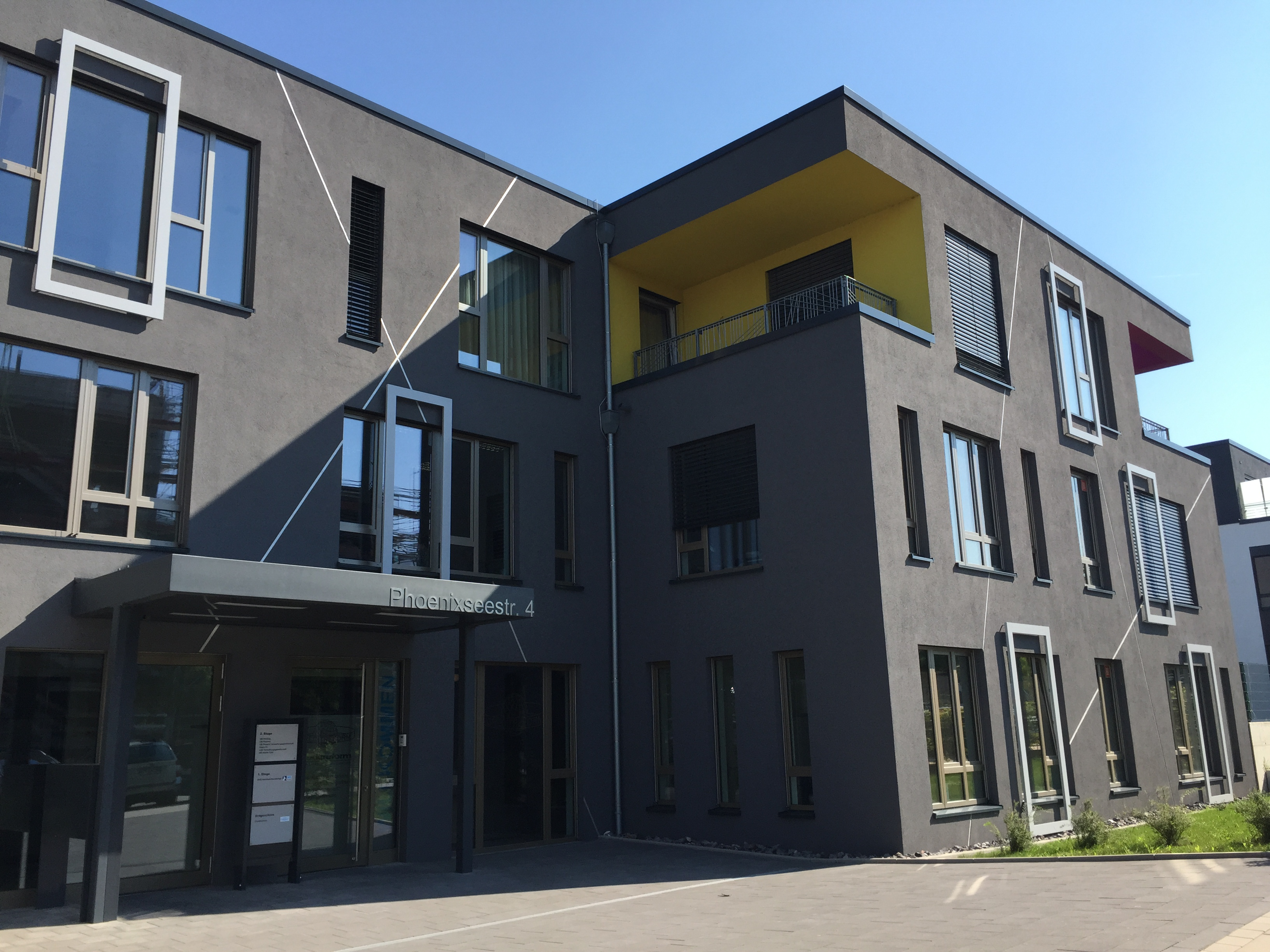 The Headquarter of the German Handball- Bundesliga